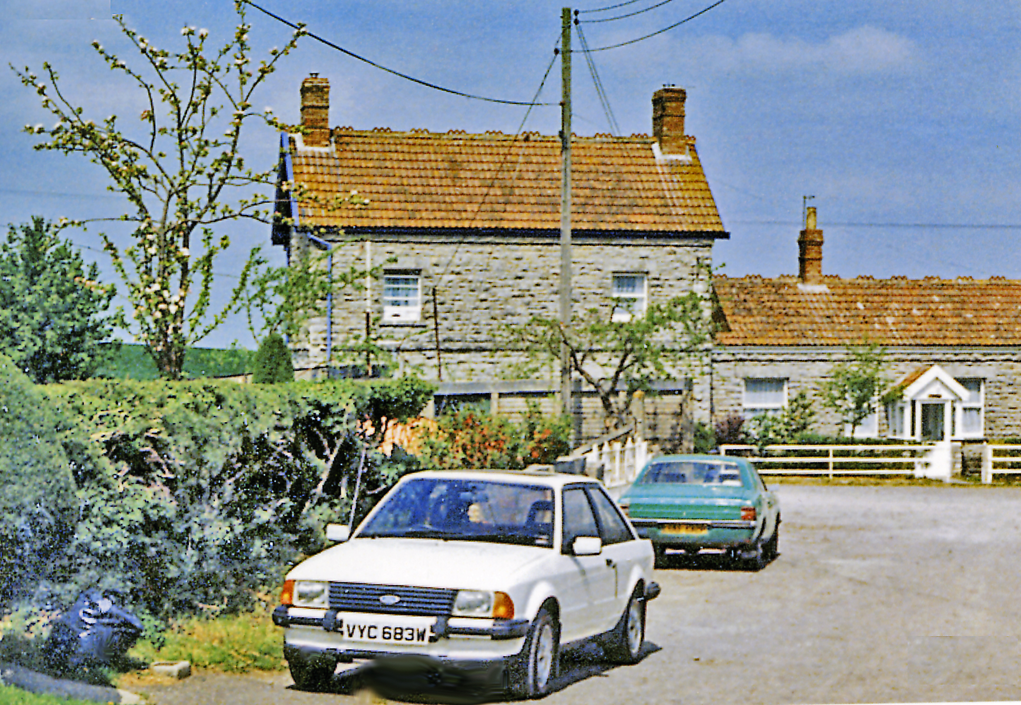 Former station at Cossington, 1987. View southward, with Bridgwater to the left, Edington Junction to the right: ex-S&D Joint branch from Edington Junction to Bridgwater (North). The station and branch were closed to passengers from 1/12/52, to goods from 4/10/54.